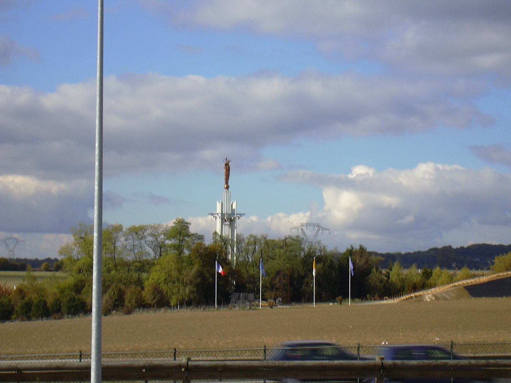 The statue of Notre-Dame-de-France, by Roger de Villiers, in Baillet-en-France (Val-d'Oise, Île-de-France, France).